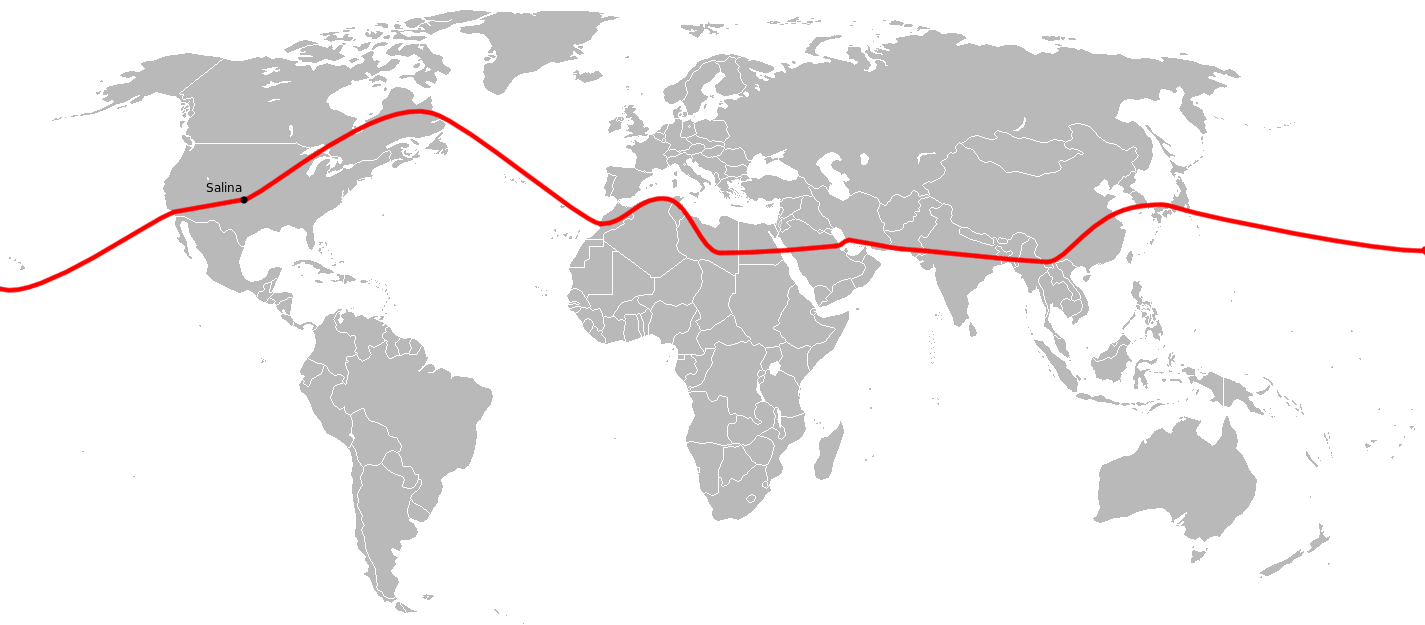 Route followed by Steve Fossett during his first solo non-stop round-the-world by plane in march 2005.